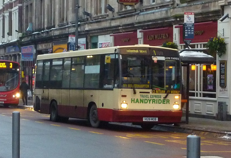 A Travel Express Ltd bus, H128 MOB a Dennis Dart 8.5SDL3003 (1990) with a Carlyle Dartline B25F in Wolverhampton (24.01.2013)